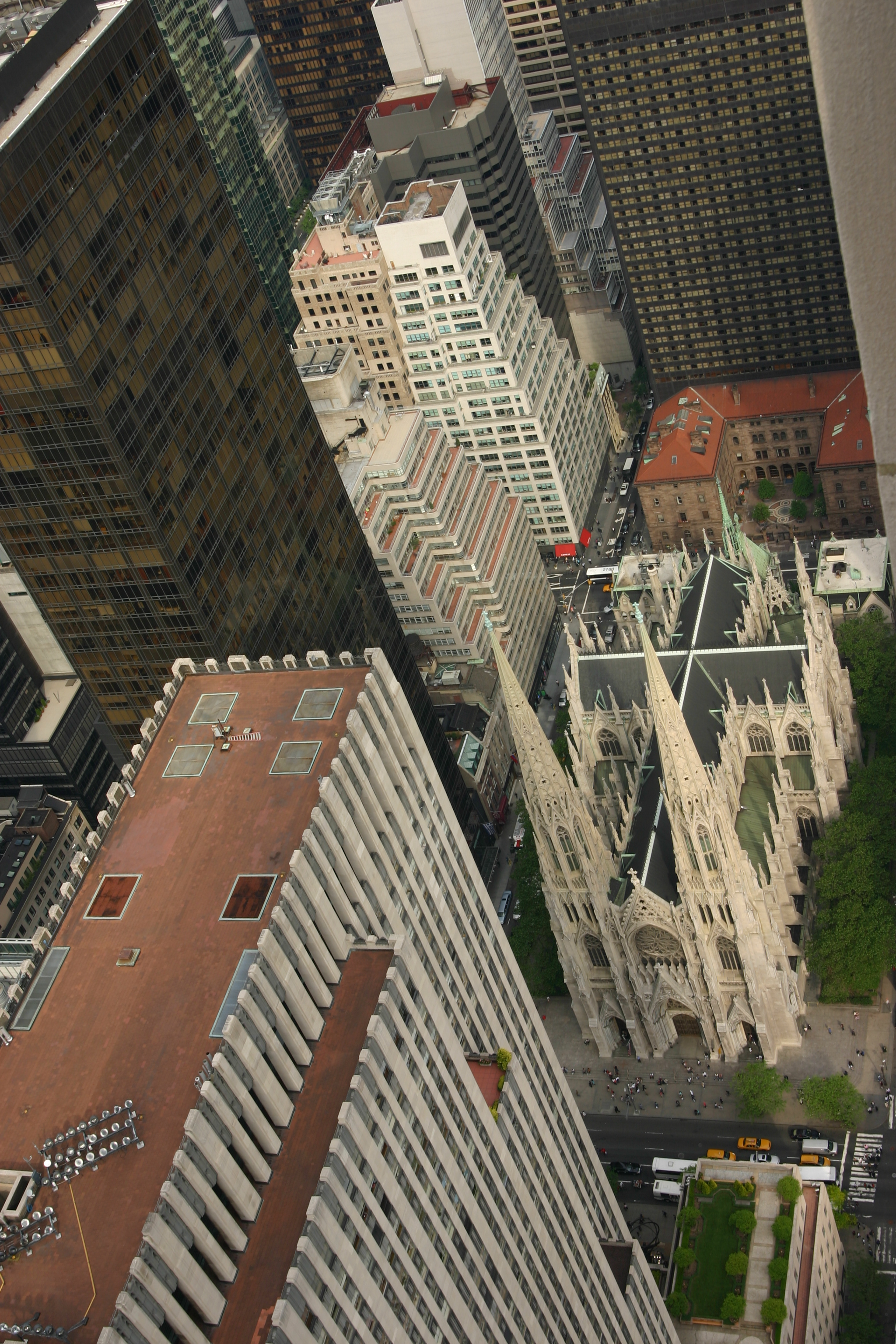 St. Patricks Cathedral. Taken from Rockefellar Center